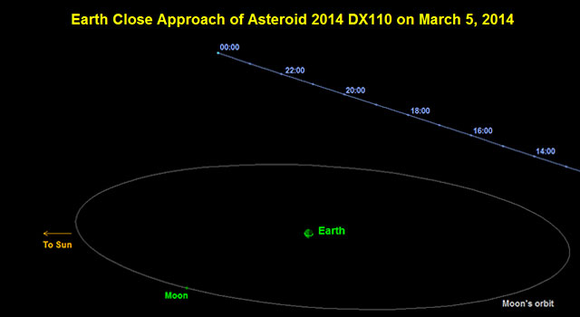 The close approach of the 30 meter sized near-Earth asteroid 2014 DX110 on 5 March 2014.